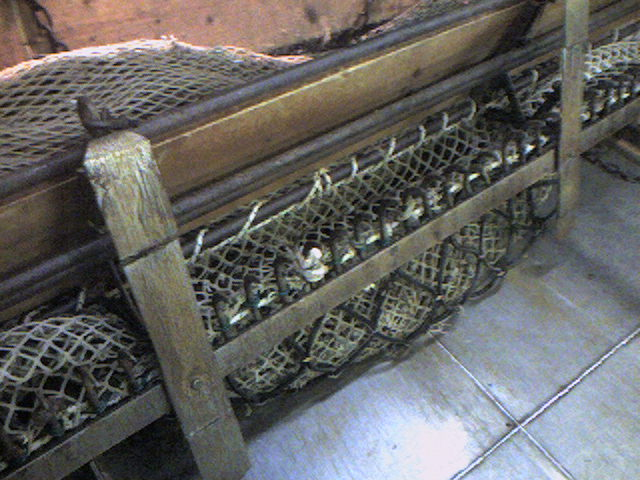 Close view of a "rapido" trawl